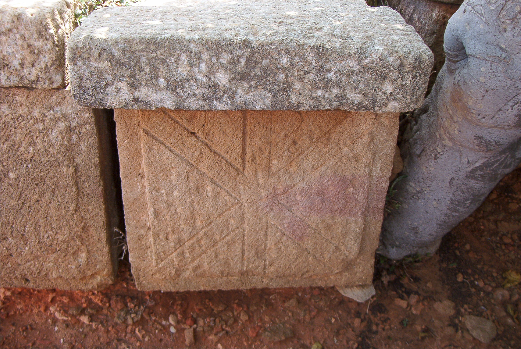 Ruins of the Byzantine era Basilica of St. Crispinus — in Tipaza, northern Algeria.